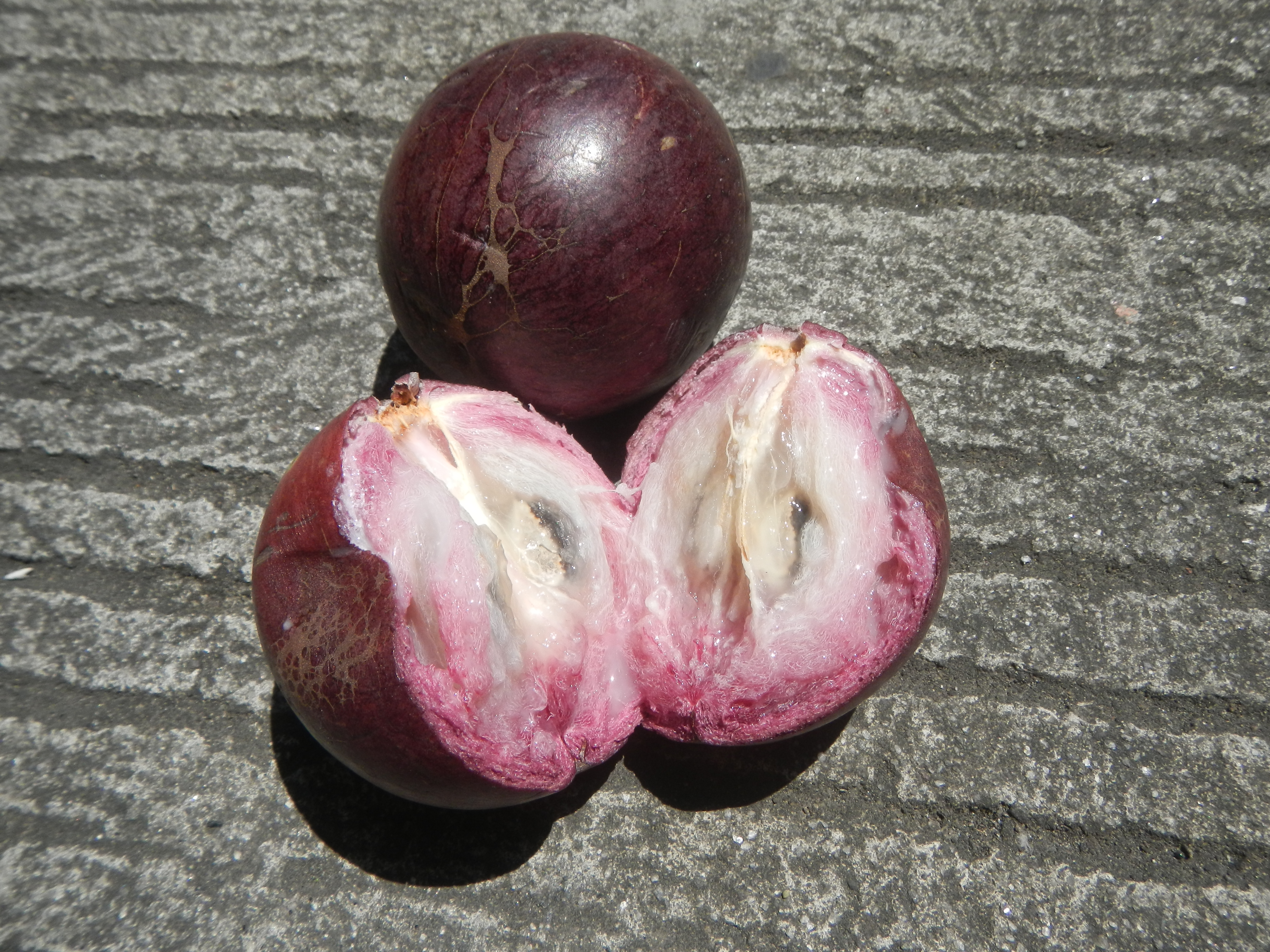 Chrysophyllum cainito Caimito fruit in Bulacan called Morado or violet, the other is green which is sweeter (Note: Judge Florentino Floro, the owner, to repeat, Donor Florentino Floro of all these photos hereby donate gratuitously, freely and unconditionally all these photos to and for Wikimedia Commons, exclusively, for public use of the public domain, and again without any condition whatsoever).